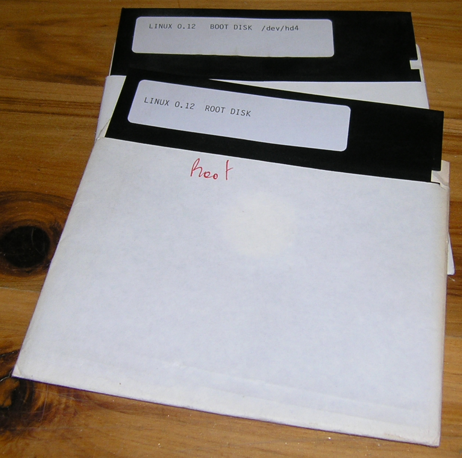 Linux v0.12[1] floppies, as produced by my late brother, Anthony Rumble, for distribution in Australia